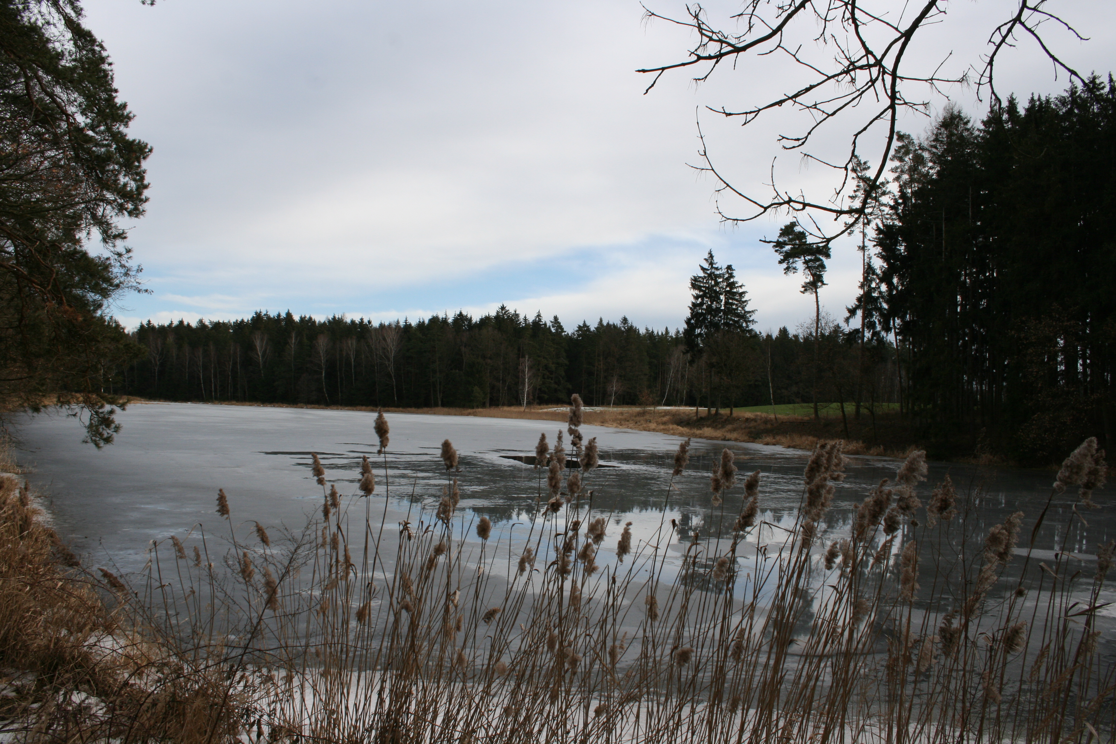 Natural reservation Králek, Jindřichův Hradec District, Czech Republic.